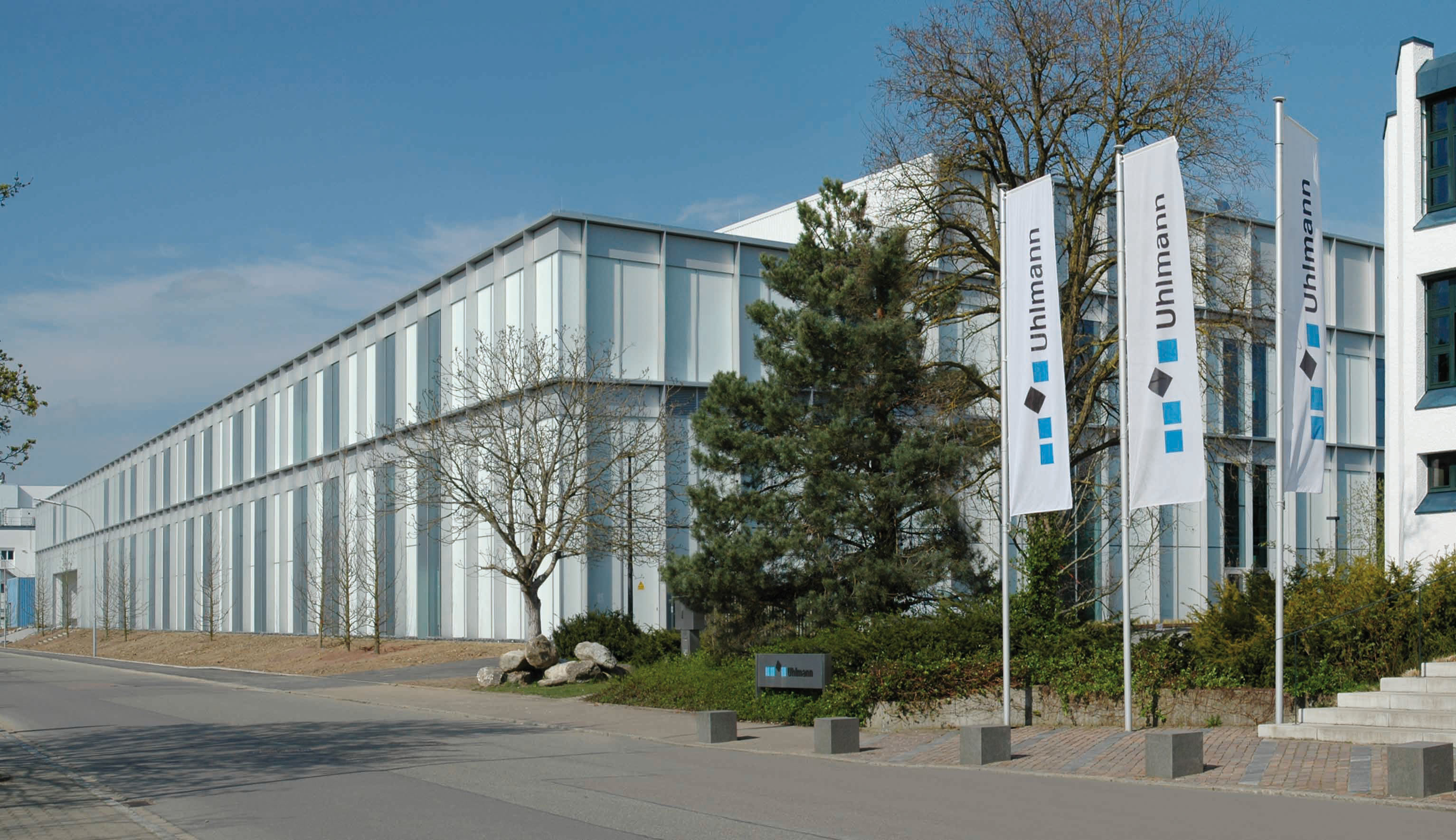 Main building of Uhlmann Pac-Systeme in Laupheim.